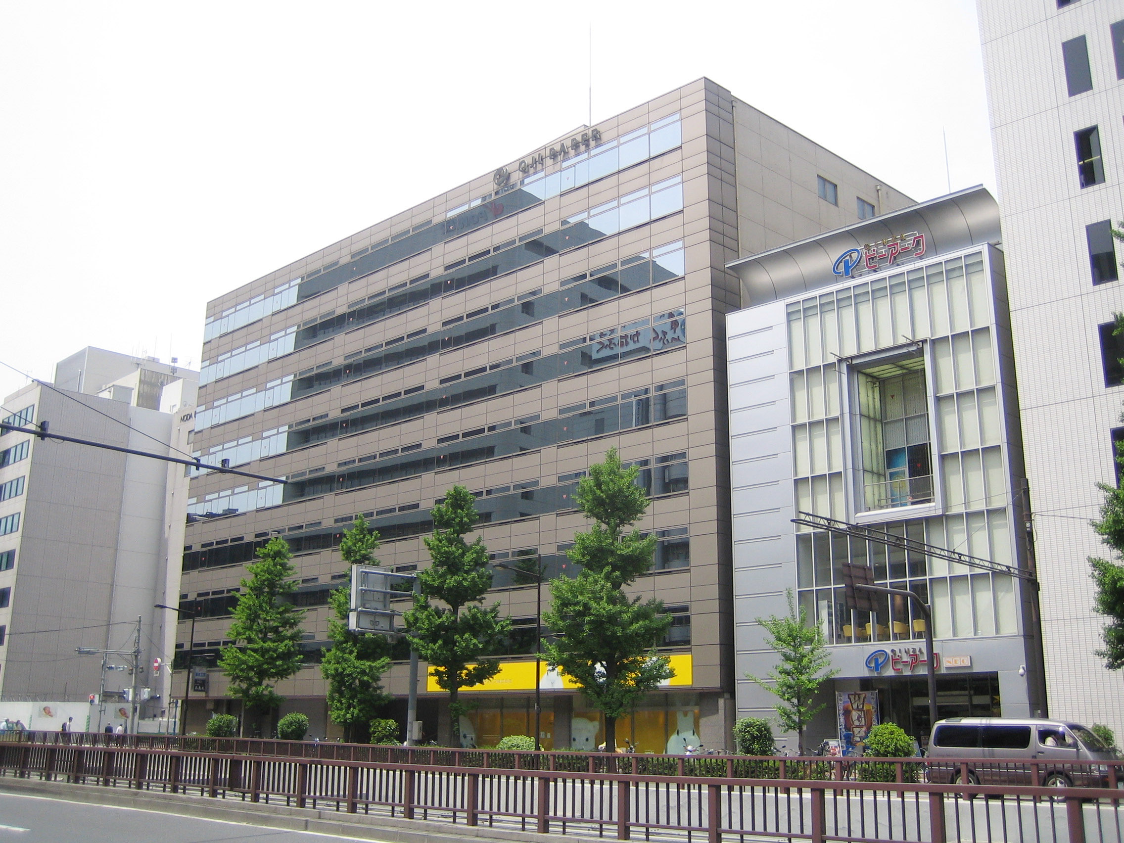 Oji Paper Co., Ltd. (王子製紙 Ōji Seishi), in Chuo, Tokyo|Chuo, Tokyo, Japan